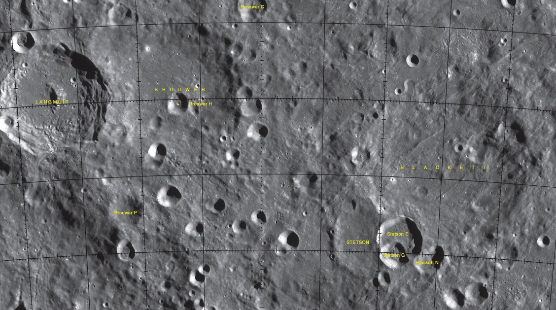 Part of the chart LAC-122